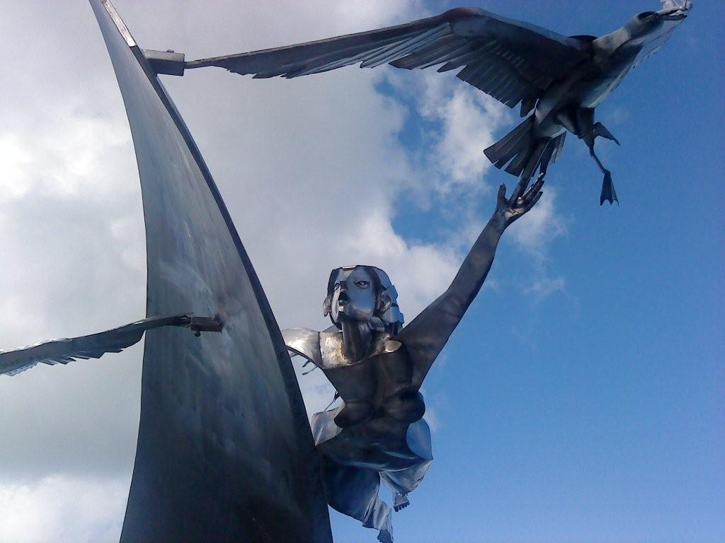 Work of art by sculptor Jørleif Uthaug (1911-90): Amfitrite, bølgen og havfuglene (Amphitrite, the wave and the sea birds) (1985) in Porsgrunn, Norway